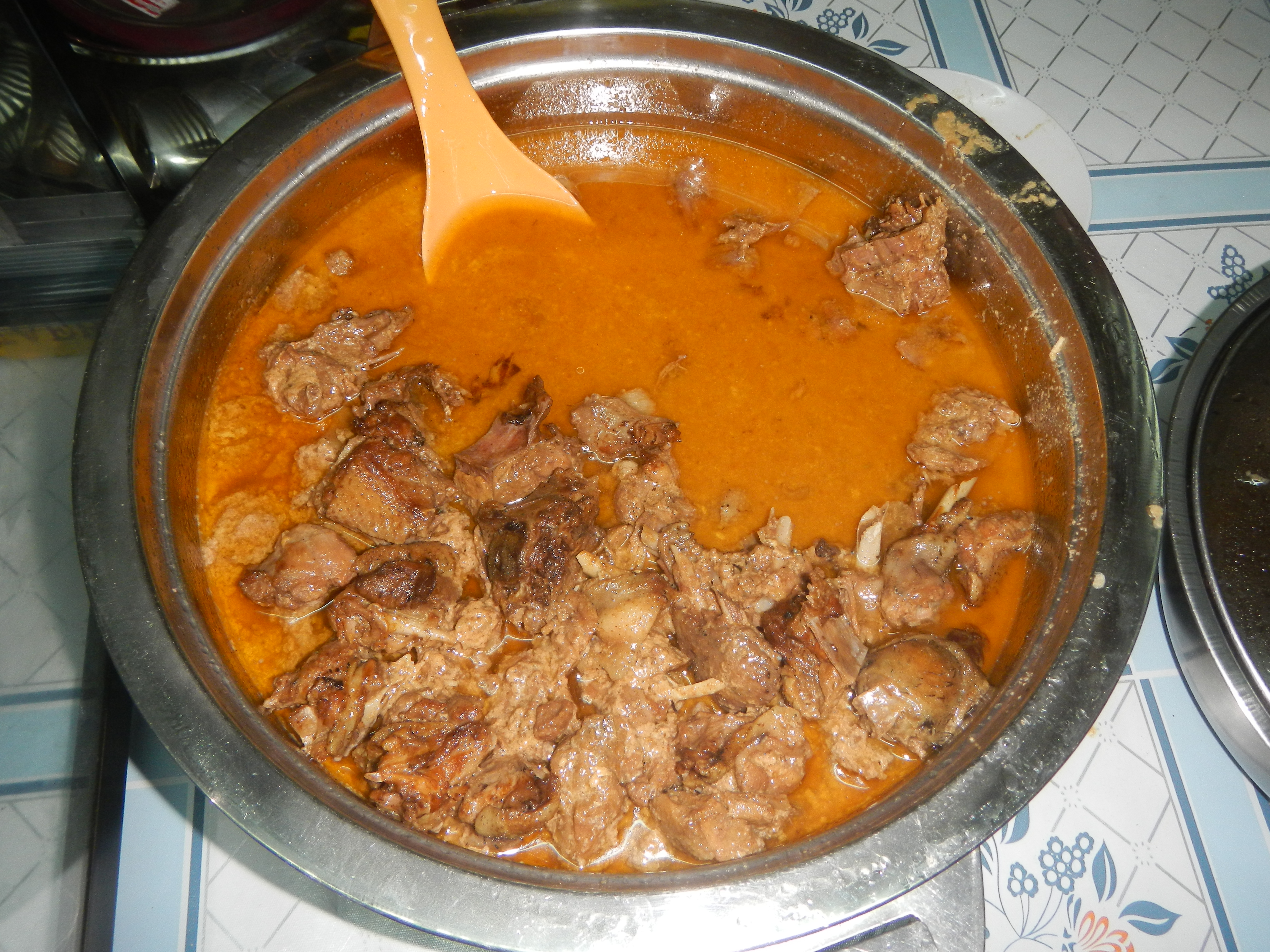 Kaldereta na itik, Fried itik, Dinuguan na Itik Pancit Lumpia Sotanghon Krispy Krust Empanada Menus in the Philippines Ensaladang Talong (Note: Judge Florentino Floro, the owner, to repeat, Donor Florentino Floro of all these photos hereby donate gratuitously, freely and unconditionally all these photos to and for Wikimedia Commons, exclusively, for public use of the public domain, and again without any condition whatsoever).